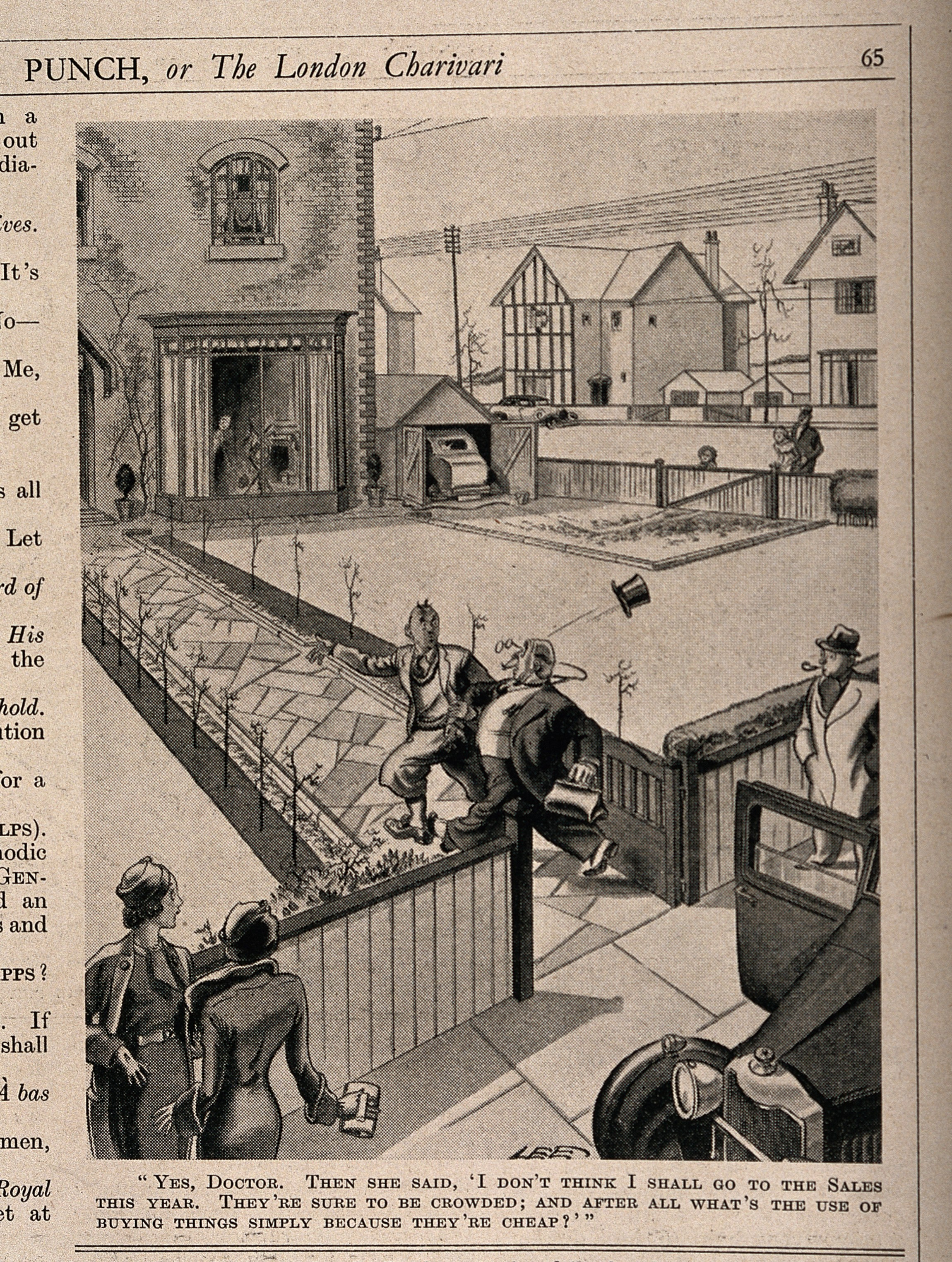 A man pulling a doctor down the path to his house to see his wife whom he thinks is ill because she doesn't want to go to the sales. Reproduction of a drawing after Lee, 1934. Iconographic Collections Keywords: Lee